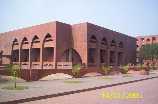 Captured by me and my friends.